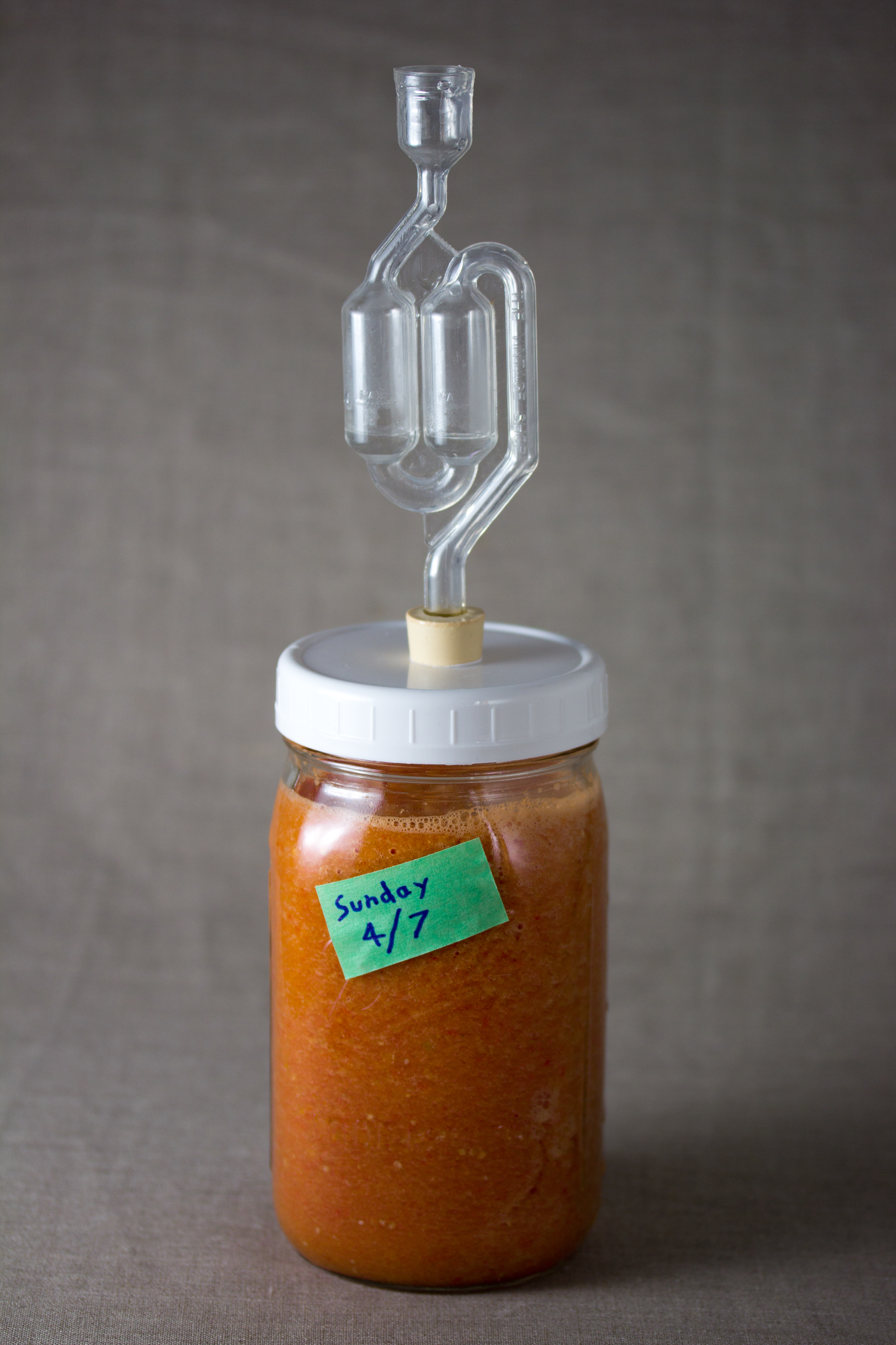 Wild Fermented Hot Sauce